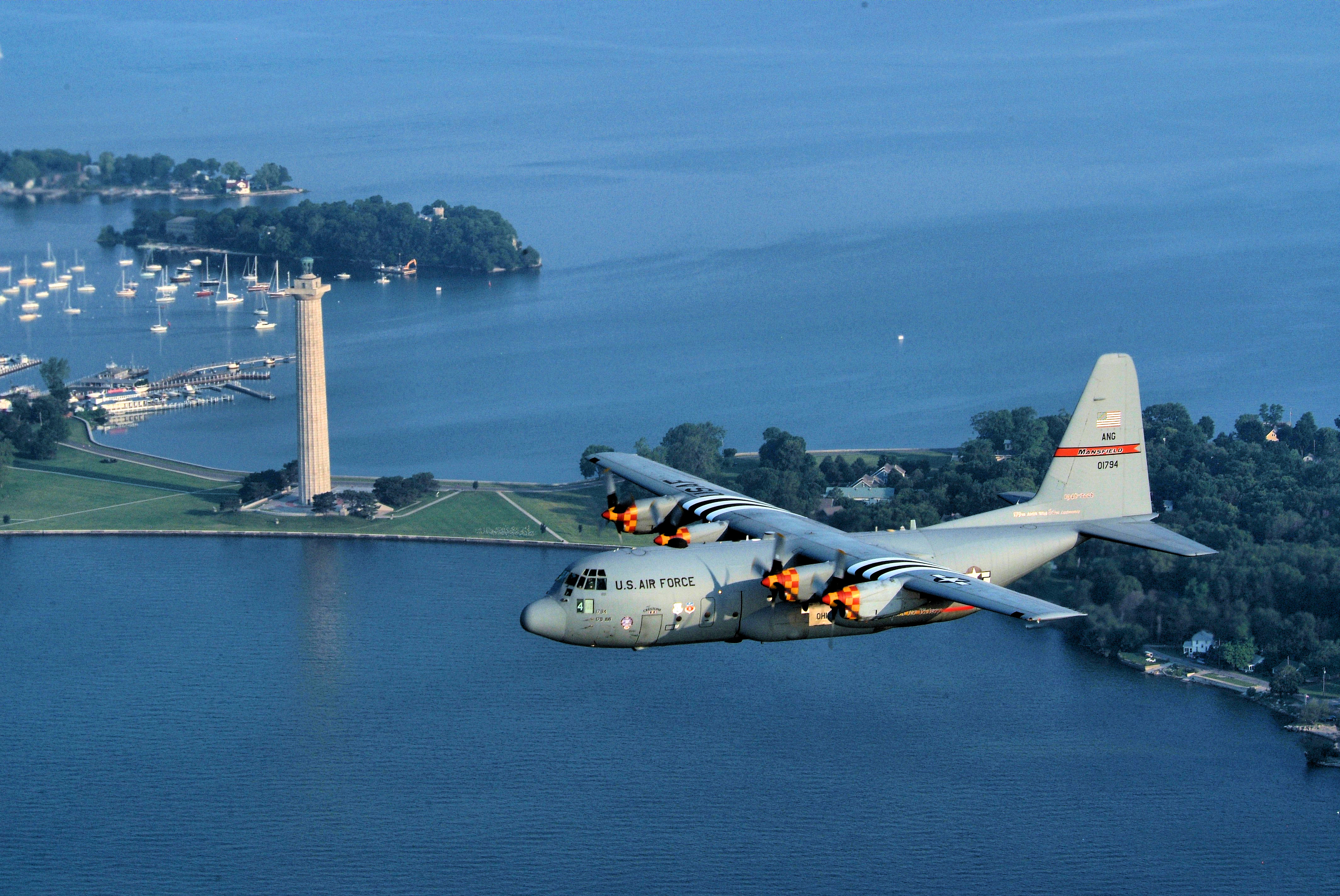 A U.S. Air Force Lockheed C-130H Hercules (s/n 90-1794) from the 164th Airlift Squadron, 179th Airlift Wing, Ohio Air National Guard flies over Perry's Victory and International Peace Memorial at Put In Bay, Ohio (USA), on 17 July 2008. The aircraft was being showcased as a recruiting tool for the 179th AW and was painted in the 1944 colours of the 363rd Fighter Squadron, the predecessor unit of the 164th AS.